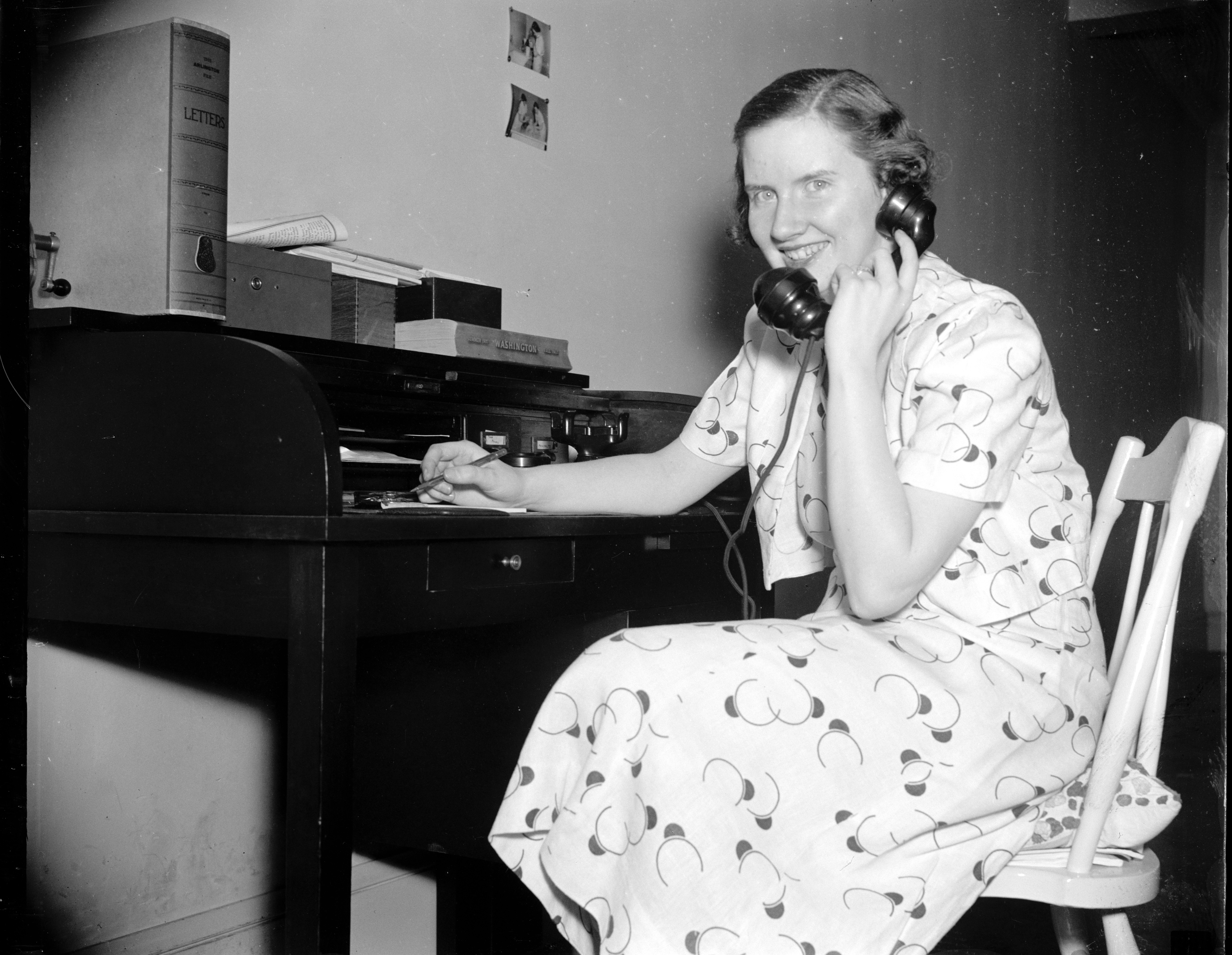 Narcissa Sullivan"'Baby Service, Inc.', Washington, D.C., August 18, 1937: 'Enjoy your baby, let us work for him' is the motto of a brand new business started here recently by Mrs. John McGee, the former Narcissa Sullivan, daughter of Mark Sullivan, the political writer."